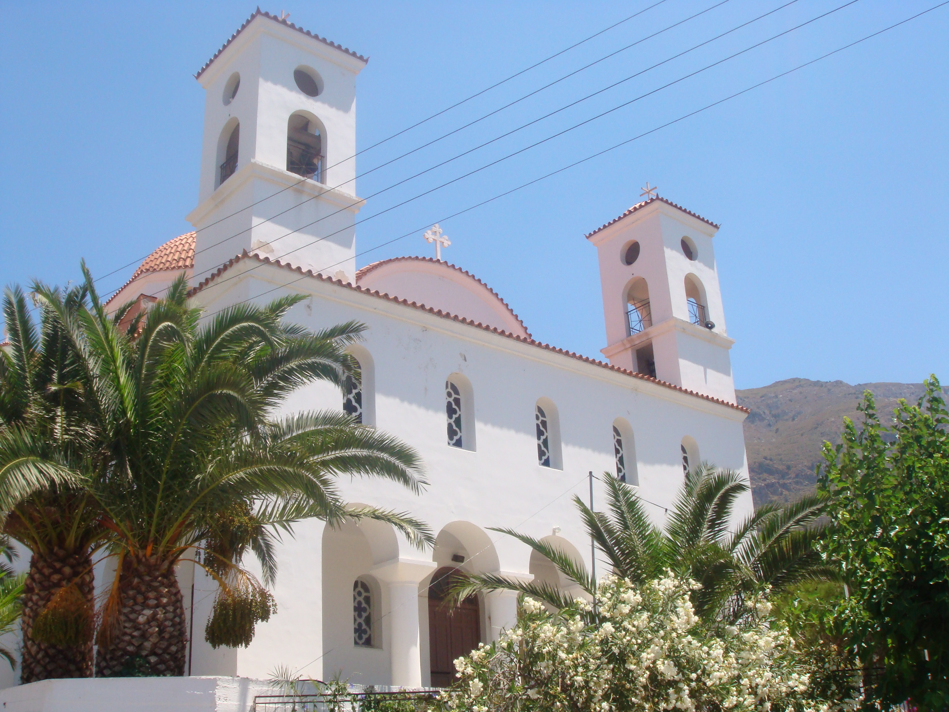 Church of Agia Triada in Kavussi, Lasithi.